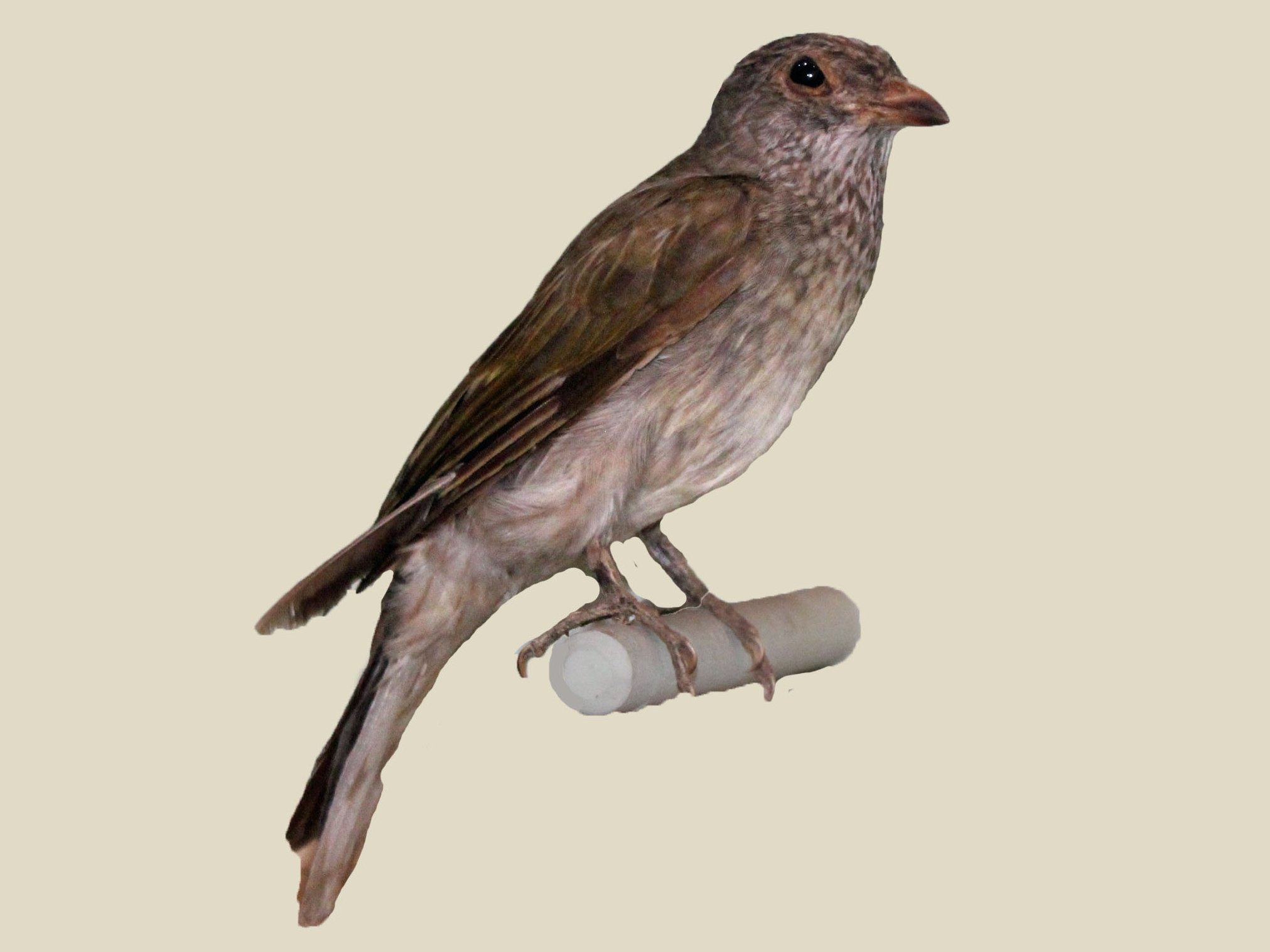 Scaly-throated Honeyguide (Indicator variegatus). Photograph of a specimen at Nairobi National Museum in Nairobi, Kenya.